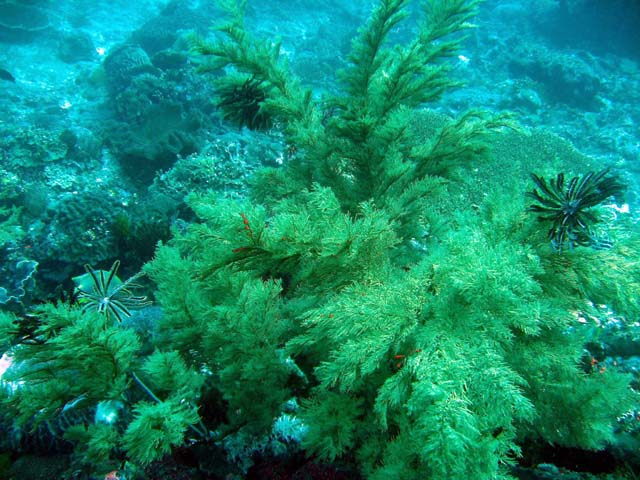 Antipathes dichotoma, Bali, Indonesia